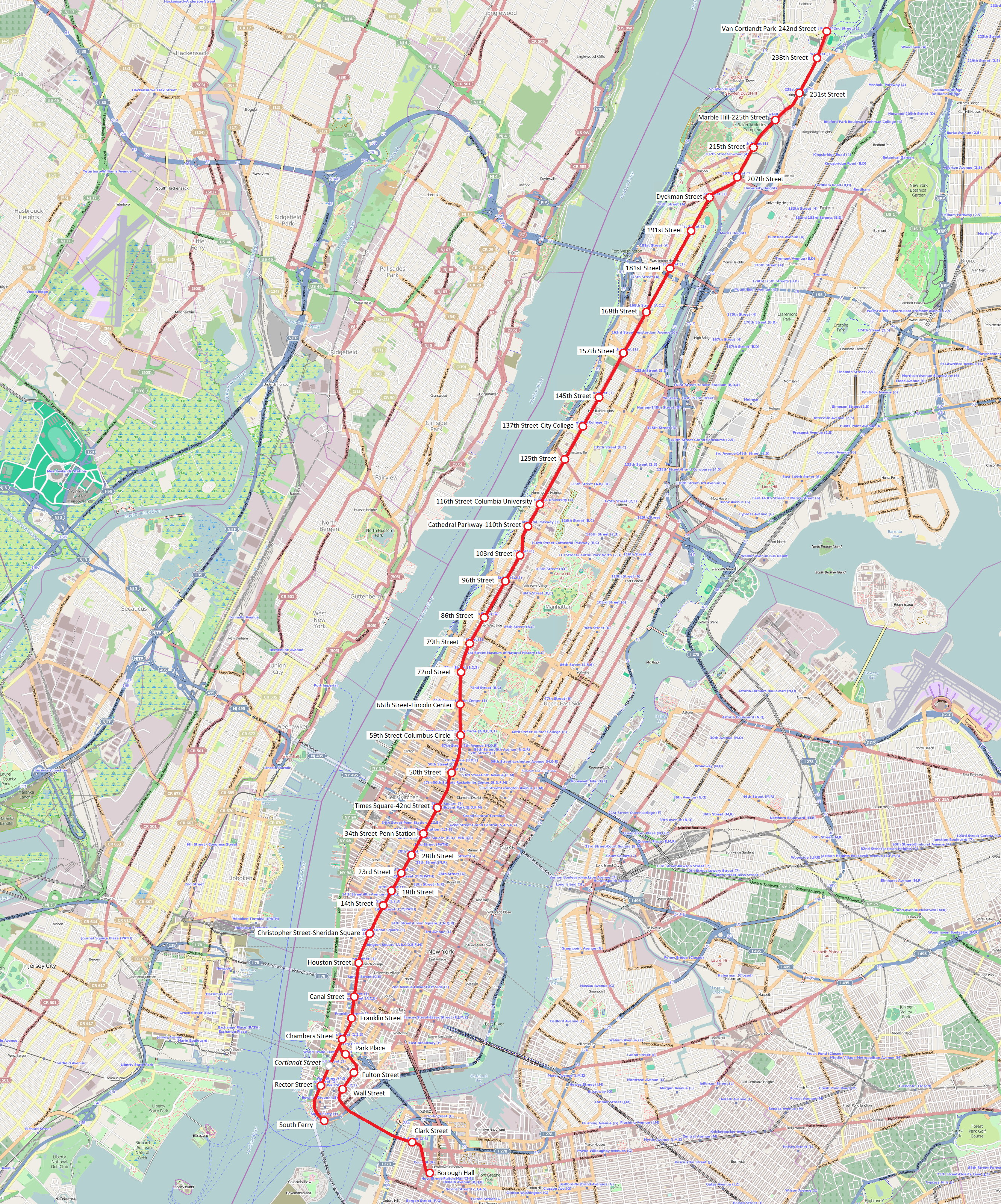 IRT Broadway-Seventh Avenue Line map